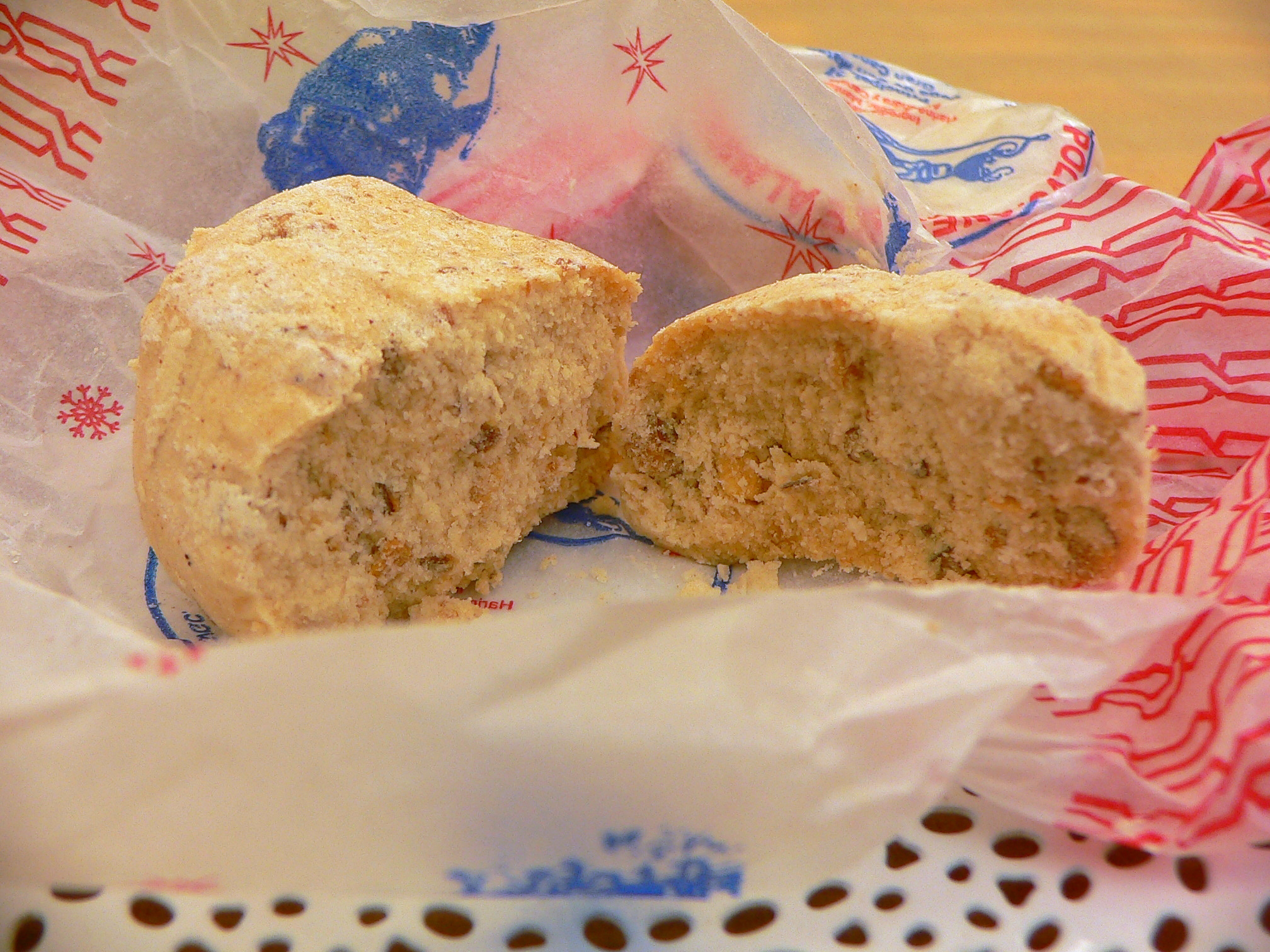 Polvorón, spanish Christmas sweet